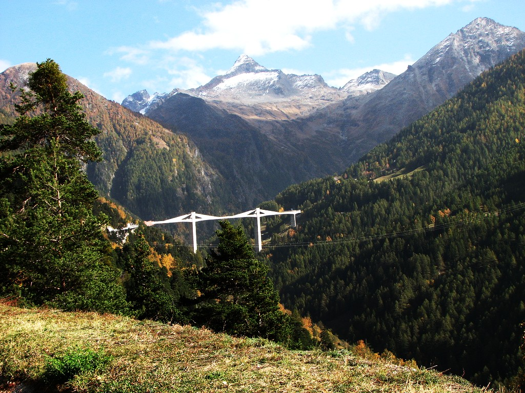 Ganter bridge (Simplon road), near Brig